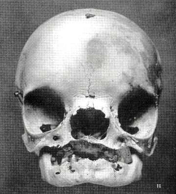 Photograph of a skull with ocular hypertelorism, from Greig's classic paper (1924)